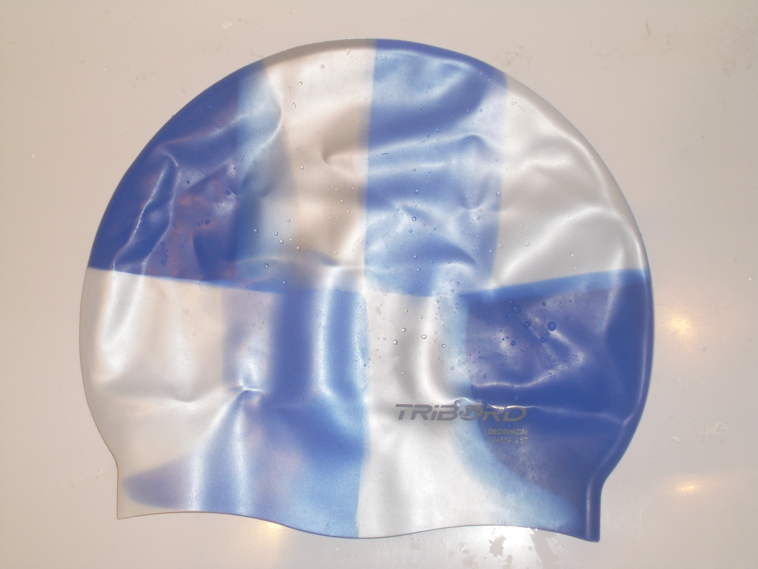 Swim cap